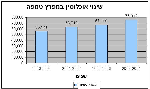 Translation of Image:Migration Chart for Tampa Bay.jpg to Hebrew.